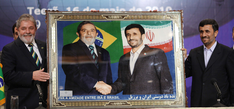 Presidente Luiz Inácio Lula da Silva recebe quadro do Presidente do Irã, Mahmoud Ahmadinejad, com fotos dos dois presidentes